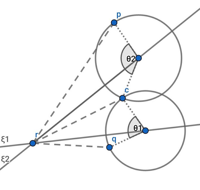 Illustration of Paden-Kahan Subproblem 2. Created in Geogebra.